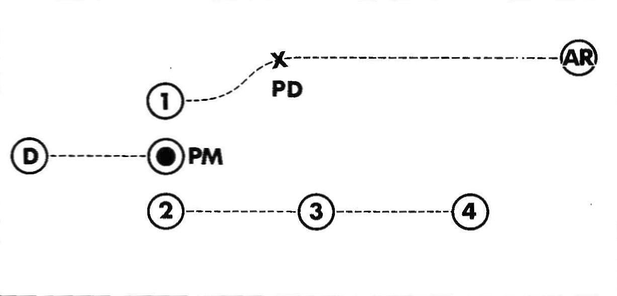 Citroen DS gear changing diaram